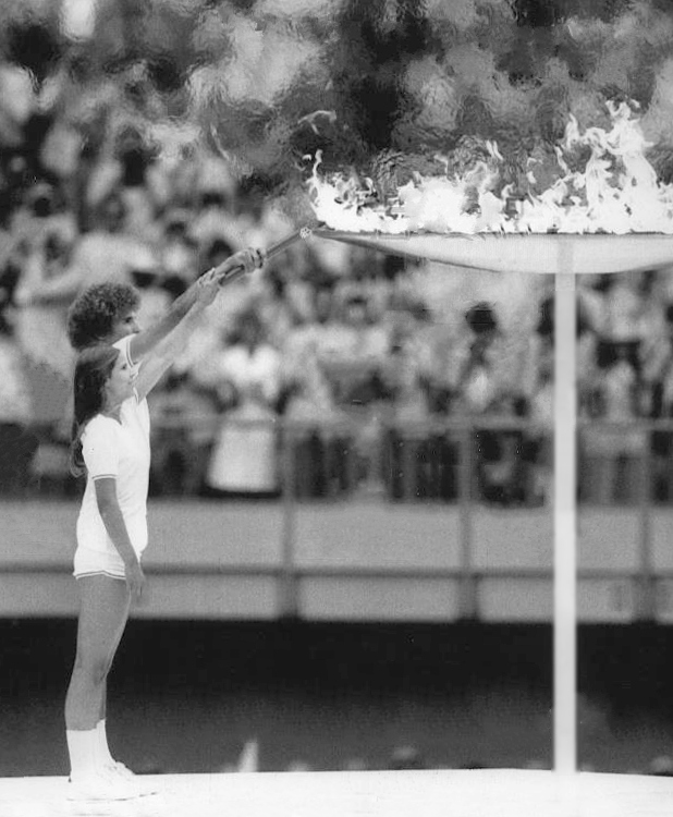 1976 Press Photo Stephane Prefontaine, Sandra Henderson light Olympic flame